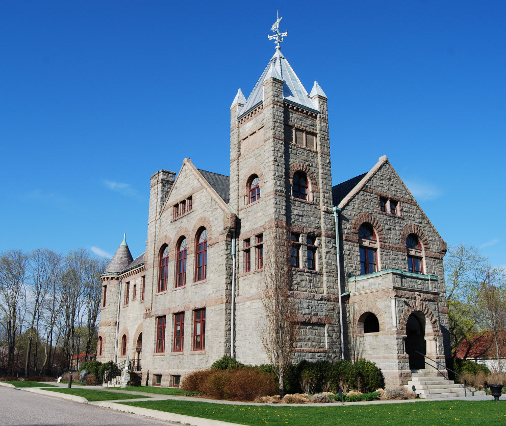 Former Washington County Courthouse, West Kingston Village, South Kingstown, RI